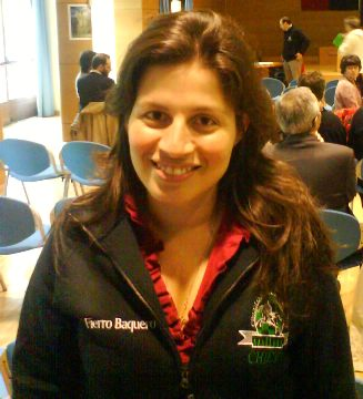 Martha Fierro Baquero at the closing ceremony of the Italian Team Championship 2010